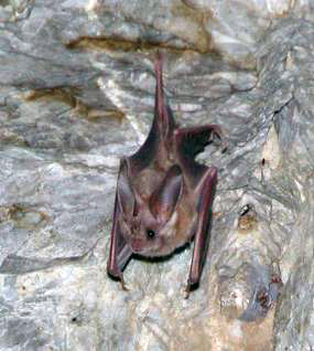 The California Leaf-nosed Bat (Macrotus californicus) is a species of bat in the Phyllostomidae family. It is found in Mexico and the United States. Its natural habitat is hot deserts. It is threatened by habitat loss.